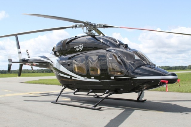 ChelAvia Bell 407